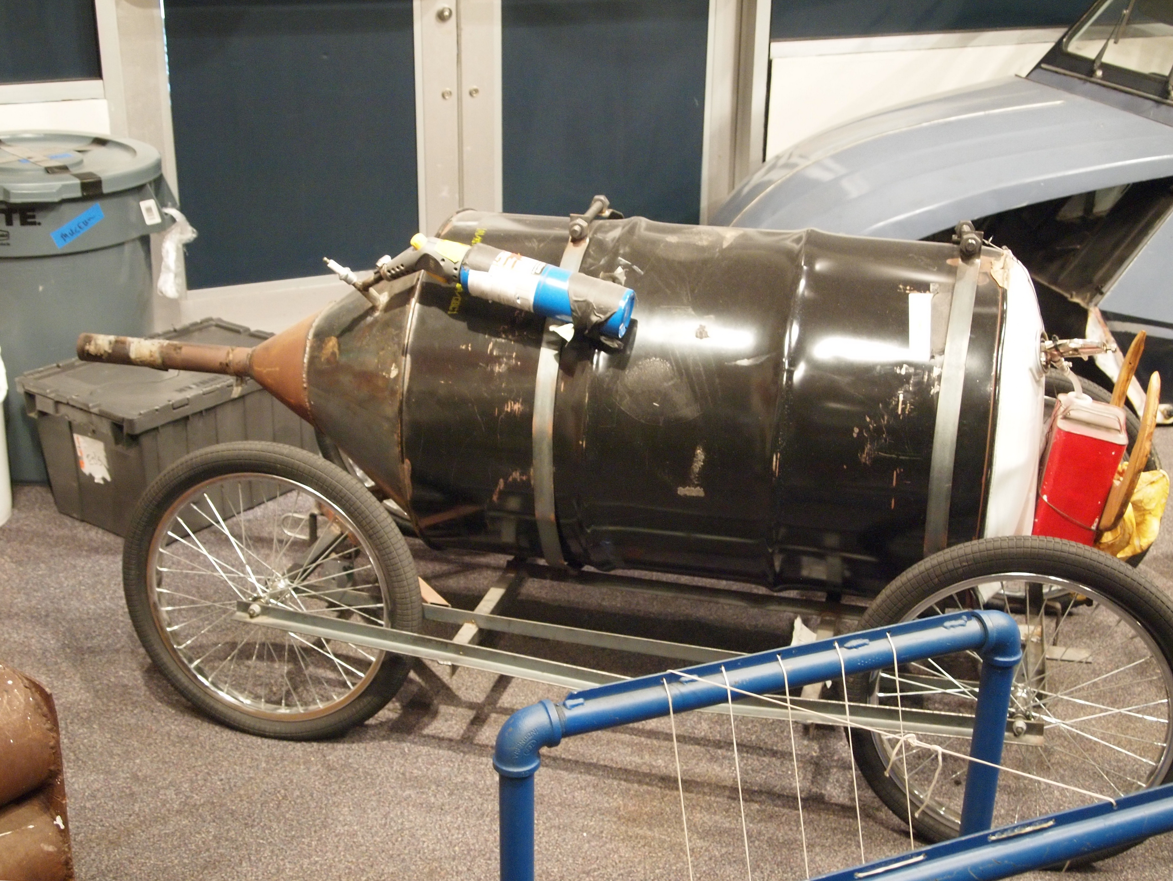 MythBusters Ballistics Barrel